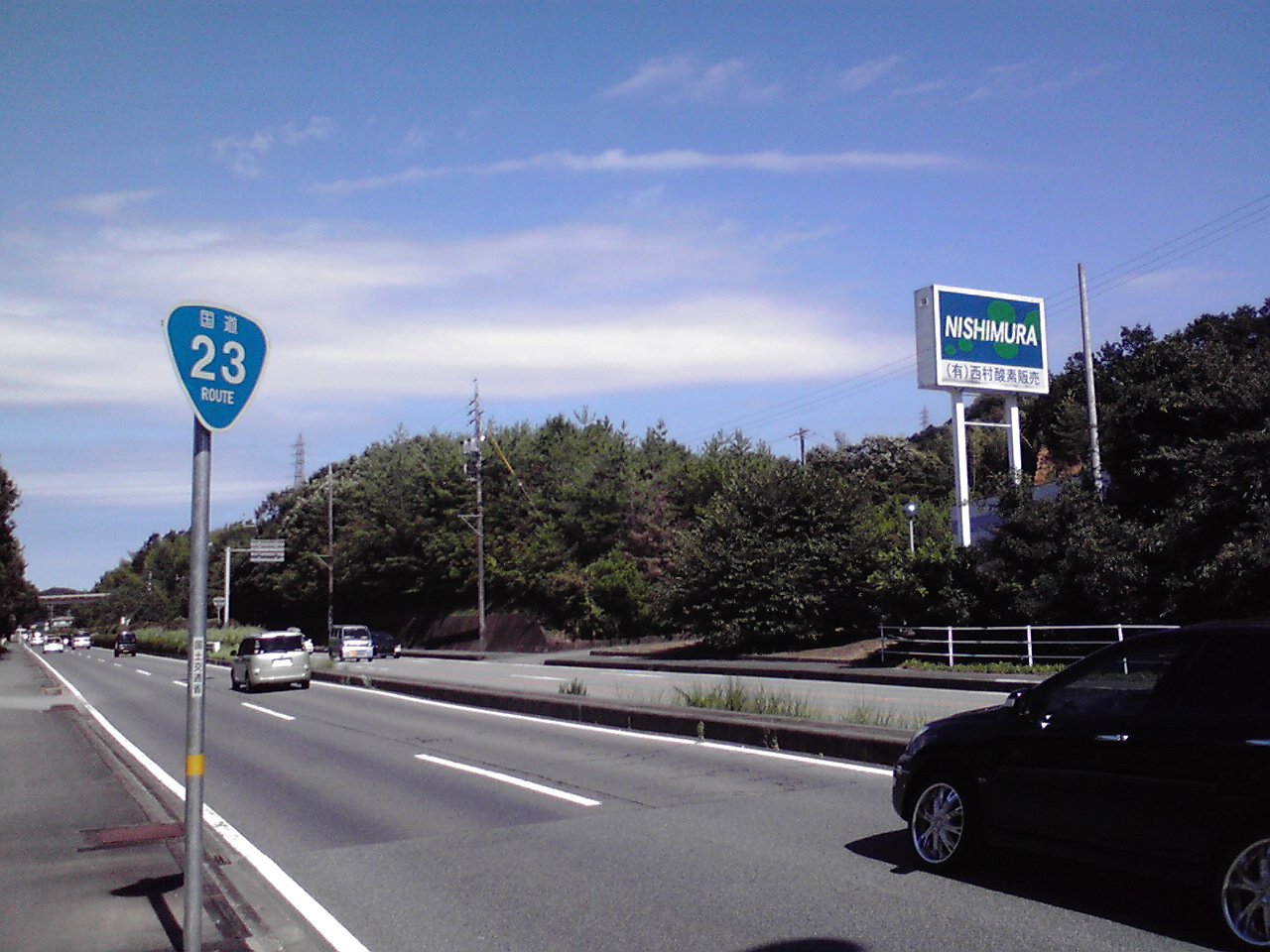 This is the landscape of Nansei bypass in Ise, Japan.